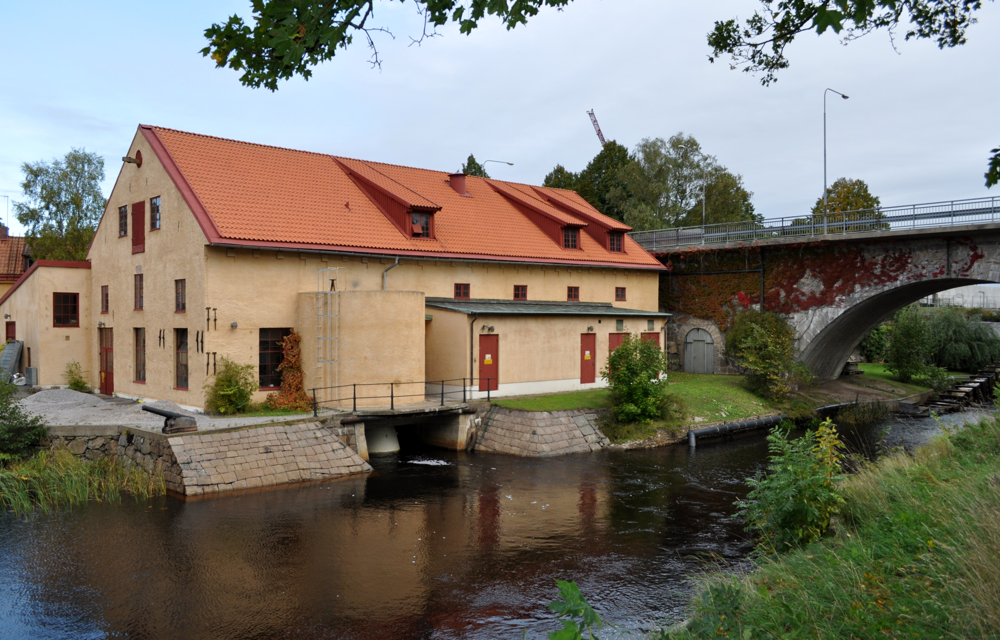 The watermill in Lyckeby, named Kronokvarnen.